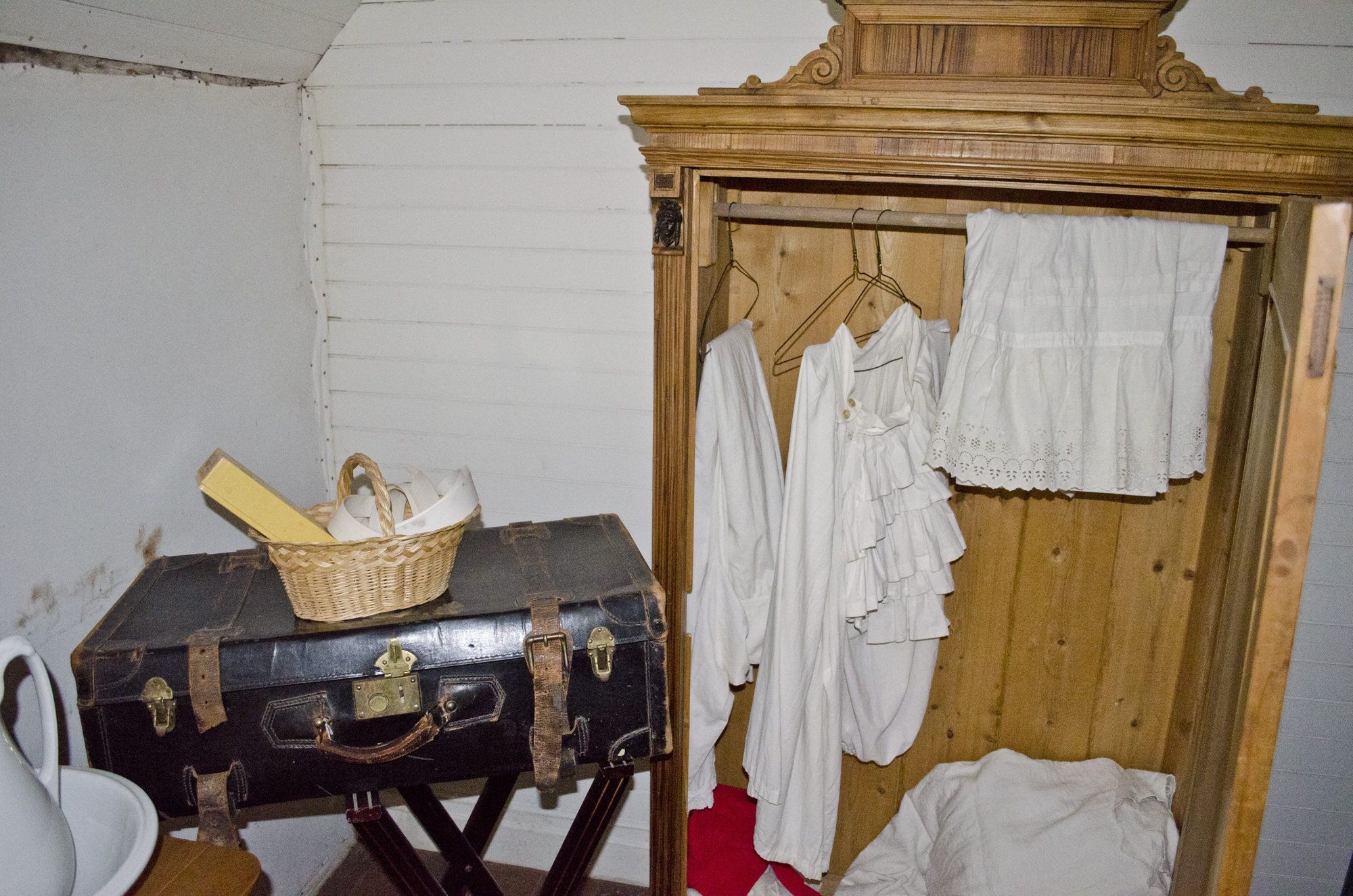 Looking at the northeast corner of the master bedroom on the second floor of the house on the grounds of the Tinsley Living Farm at the Museum of the Rockies in Bozeman, Montana. The suitcase functioned as a chest for the husband's clothing. The open door to the wardrobe shows the wife's "intimate things". The house was constructed in 1889 by William and Lucy (Nave) Tinsley. William Tinsley worked for Wells Fargo and migrated to Montana in 1864. Lucy was a dressmaker who emigrated to Virginia City, Montana, the same year. Both were originally from Missouri. They met in Virginia City, married in 1867, and relocated to Willow Creek in the Gallatin Valley (about 40 miles west of Bozeman). They built a homestead log cabin (about the size of the current blacksmith shop), and lived there until 1889. Their first child was born in 1868, and by 1889 they had eight kids. William Tinsley built the family a two-story home out of logs taken from the nearby Tobacco Root Mountains. The oldest children helped haul the logs, which took two days to get to the homestead. The structure took two years to construct. Most of the items in the house were ordered from the Sears catalog. The family occupied the house until the 1920s. The house was purchased by the museum in 1987, and moved from its original location to the Museum of the Rockies in 1989. Refurbished with items donated by Tinsley descendants, it now serves as a living history museum. The house sits on 10 acres of land, and includes a historically accurate kitchen garden, flower garden, chicken coop, farm implements, carriage house, blacksmith shop, root cellar, outhouse, functioning well and pump, storage shed, and fields. A full cellar was excavated beneath Tinsley House as well. Visitors are free to touch and use many of the items in Tinsley House. A staff of historical re-enactors includes four women who cook, clean, sew, and perform chores around the house as well as a blacksmith who does ironmongery and repairs.